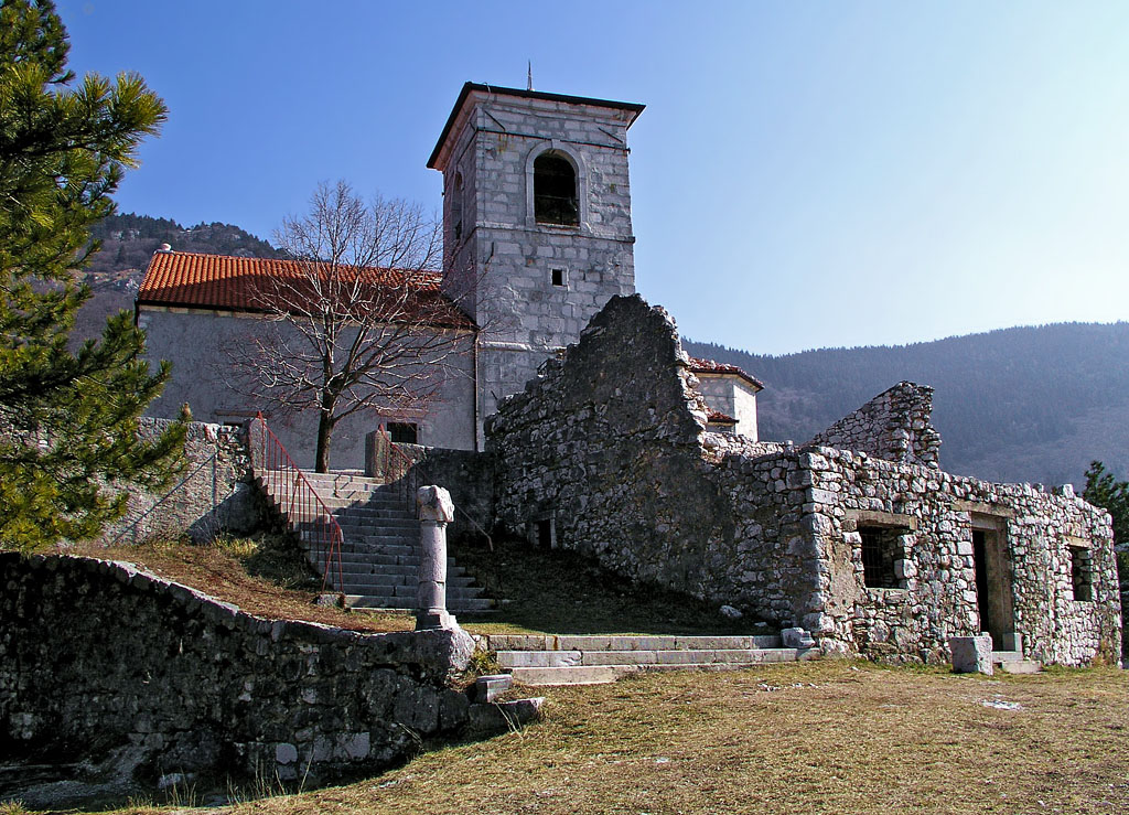 Vitovlje, the church of Santa Marija (of the snow).